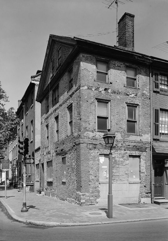 General Thaddeus Kosciuszko House, 301 Pine Street (at 3rd Street), Philadelphia, Philadelphia County, PA. West (front) elevation along Pine Street. The house is now the Thaddeus Kosciuszko National Memorial, administered under Independence National Historical Park. Image has been cropped to remove border.